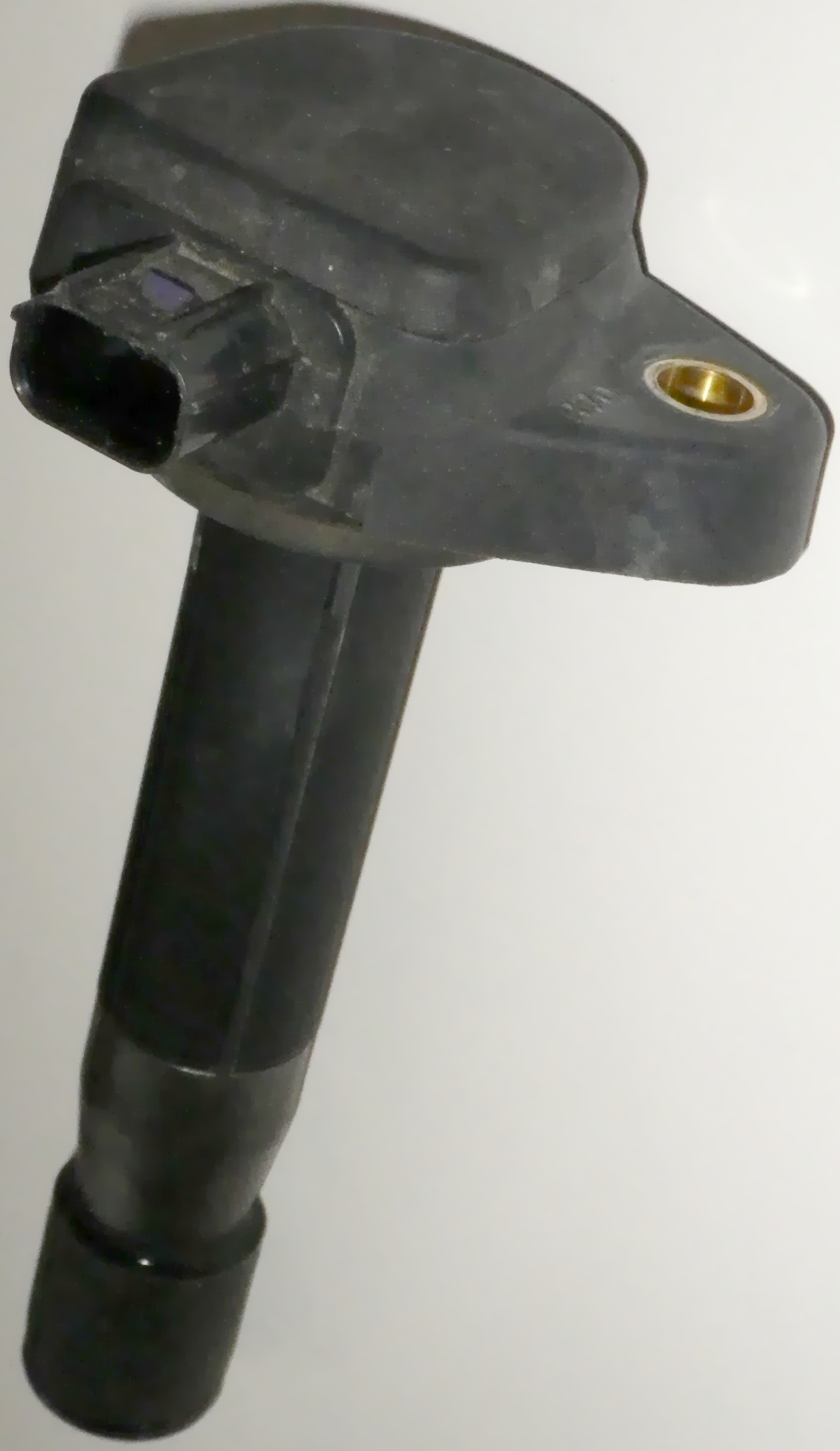 Coil pack removed from 2011 Honda Odyssey (1 of 6)